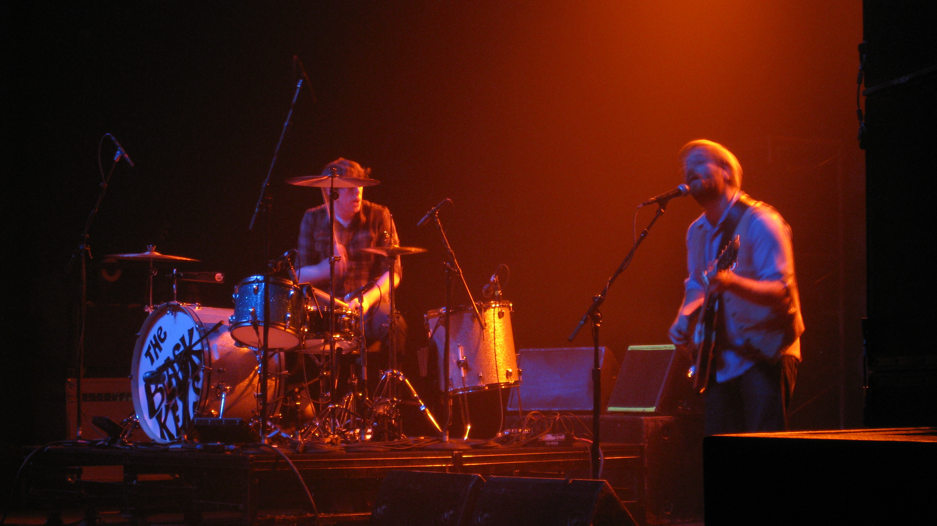 The Black Keys performing at the Agora in Cleveland, OH on January 30, 2009